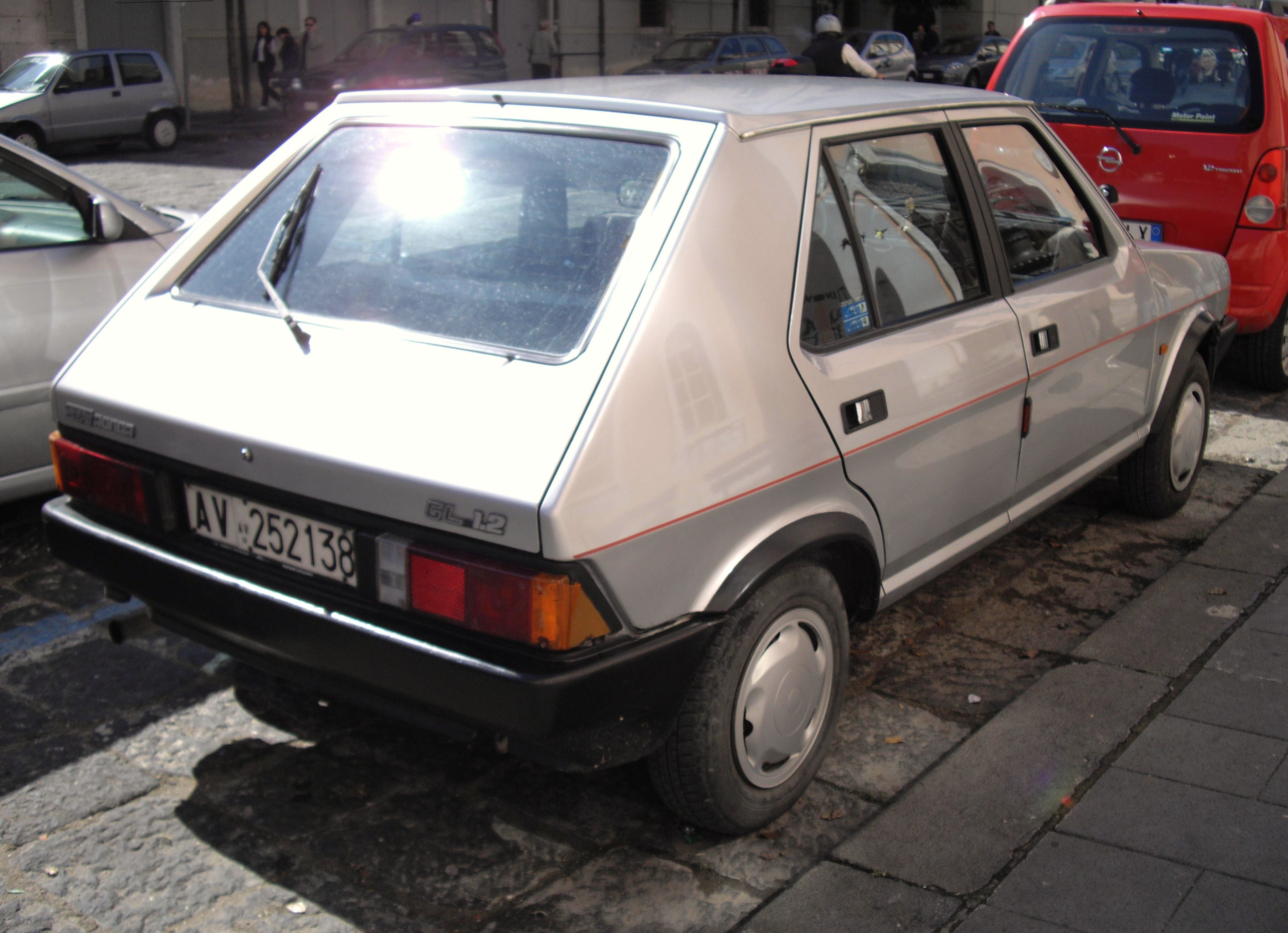 Seat Ronda